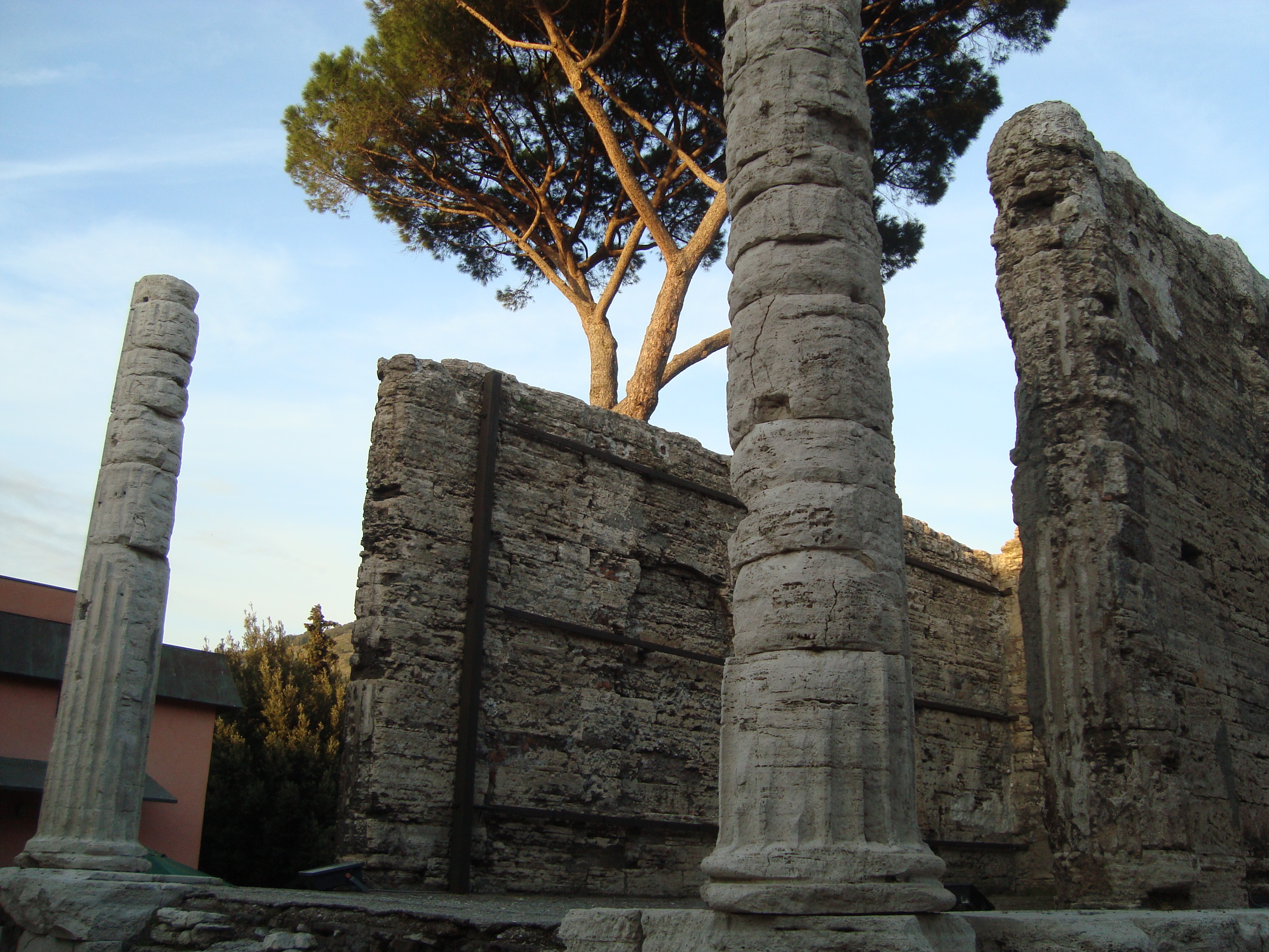 The Sibyl's Temple in Tivoli, Italy